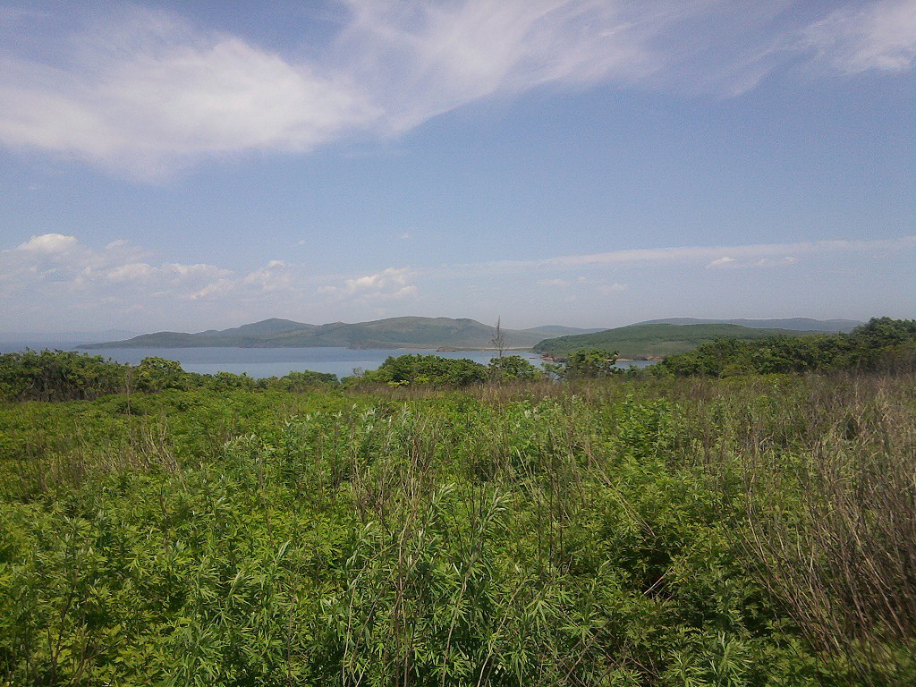 Landscape of Reyneke Island (Popov Island far behind), Primorsky Krai